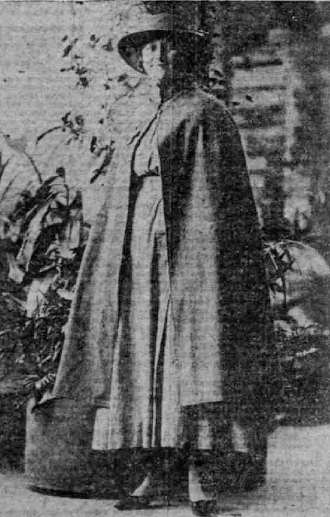 The Sunday Oregonian. (Portland, Ore.), February 17, 1918, SECTION FIVE, Page 5, headline: "STORY OF HEROIC SUZANNE SILVERCRUYS: BELGIAN GIRL".